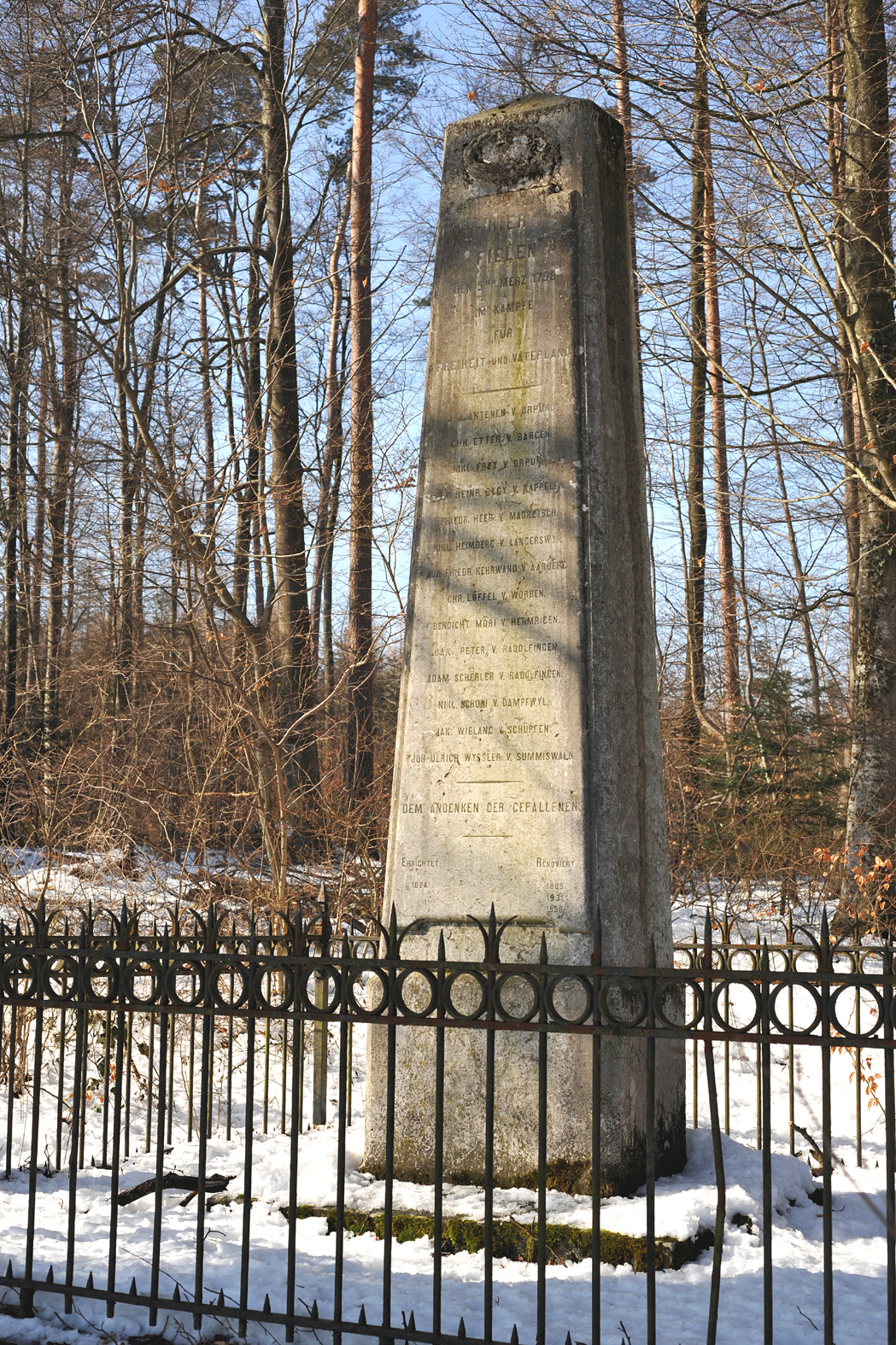 Memorial, combat of St. Niklaus (5 March 1798), Bern, Switzerland.